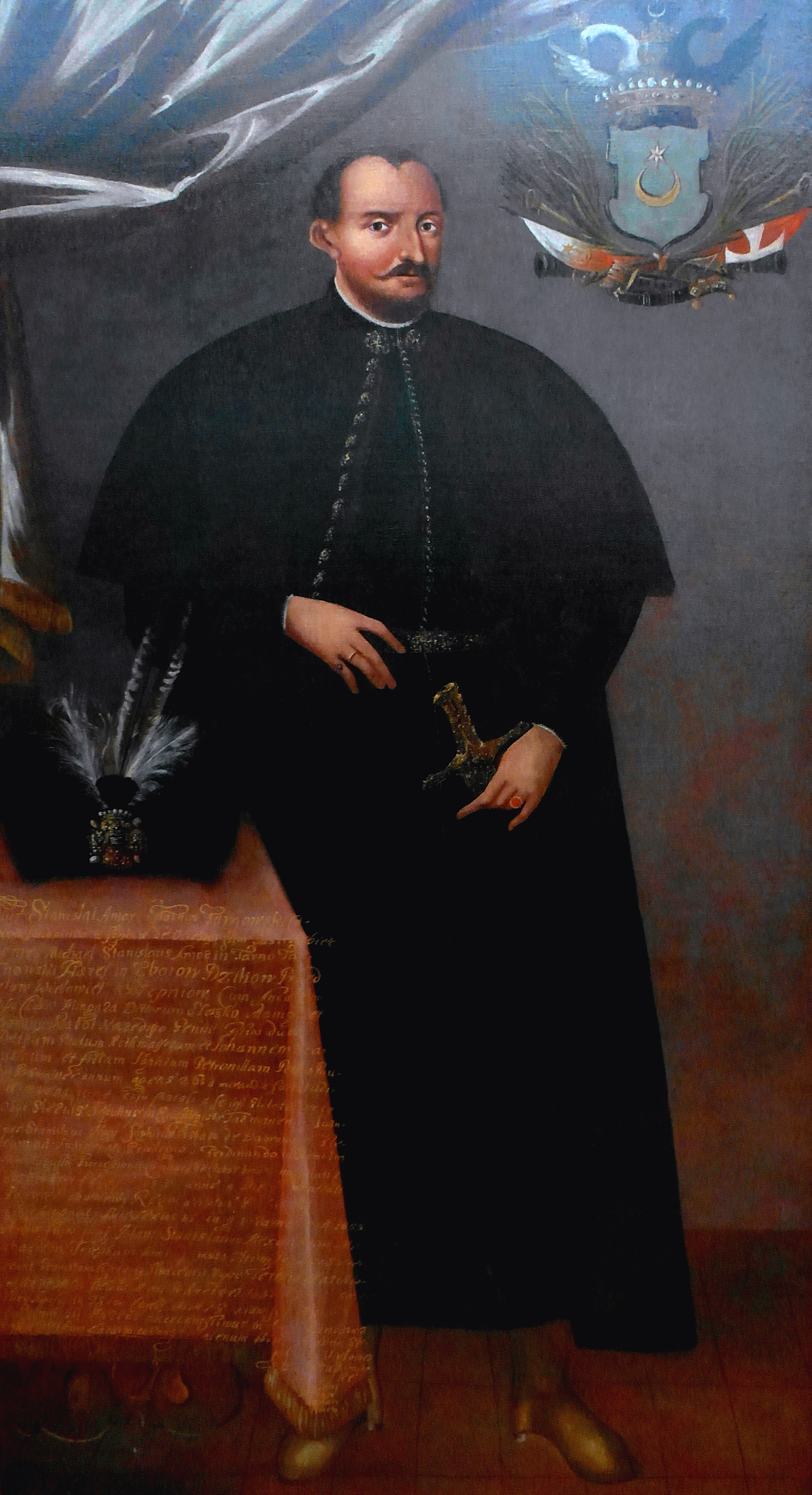 Michał Stanisław Tarnowski